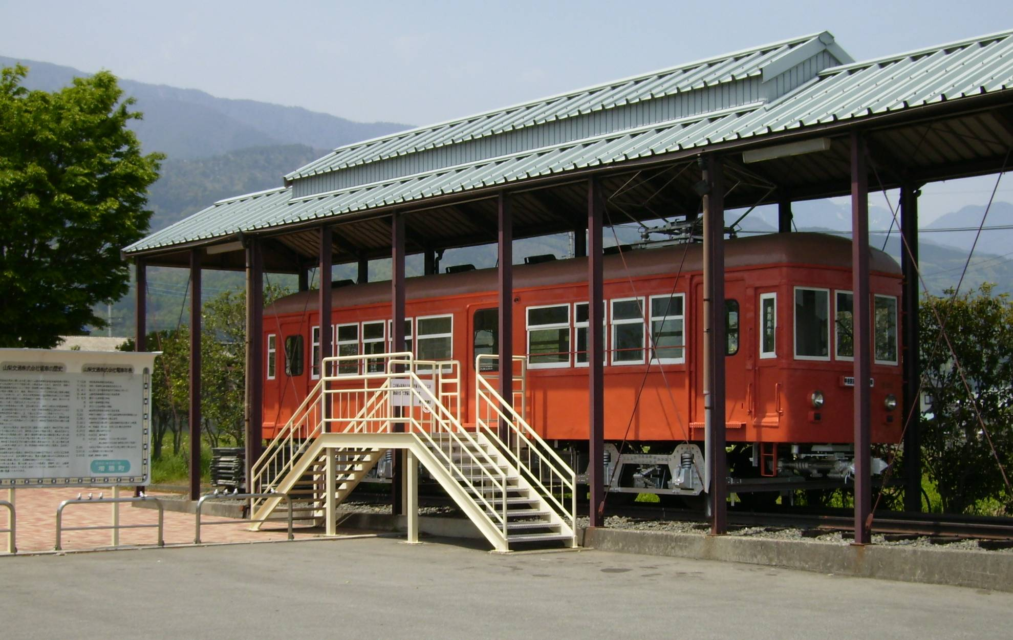 Description: An electric passenger car, Enoshimadentetsu (Kanagawa pref. Japan) type 800, No.801. Originally built as type Moha7, No.7 of Yamanashi-kotsu railway (Yamanashi pref. Japan) in 1948. Photographed by uploader myself at Tonegawa park (Masuho, Yamanashi) in May, 2006 with using Olympus FE150 digital camara.